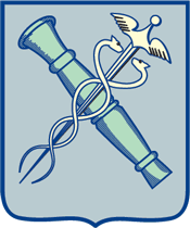 Novozybkov (Bryansk oblast), coat of arms